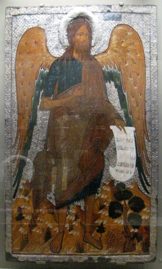 Icon of John the Baptist, tretiakov gallery